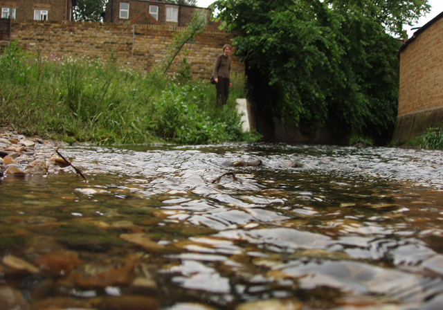 River Quaggy, London, UK